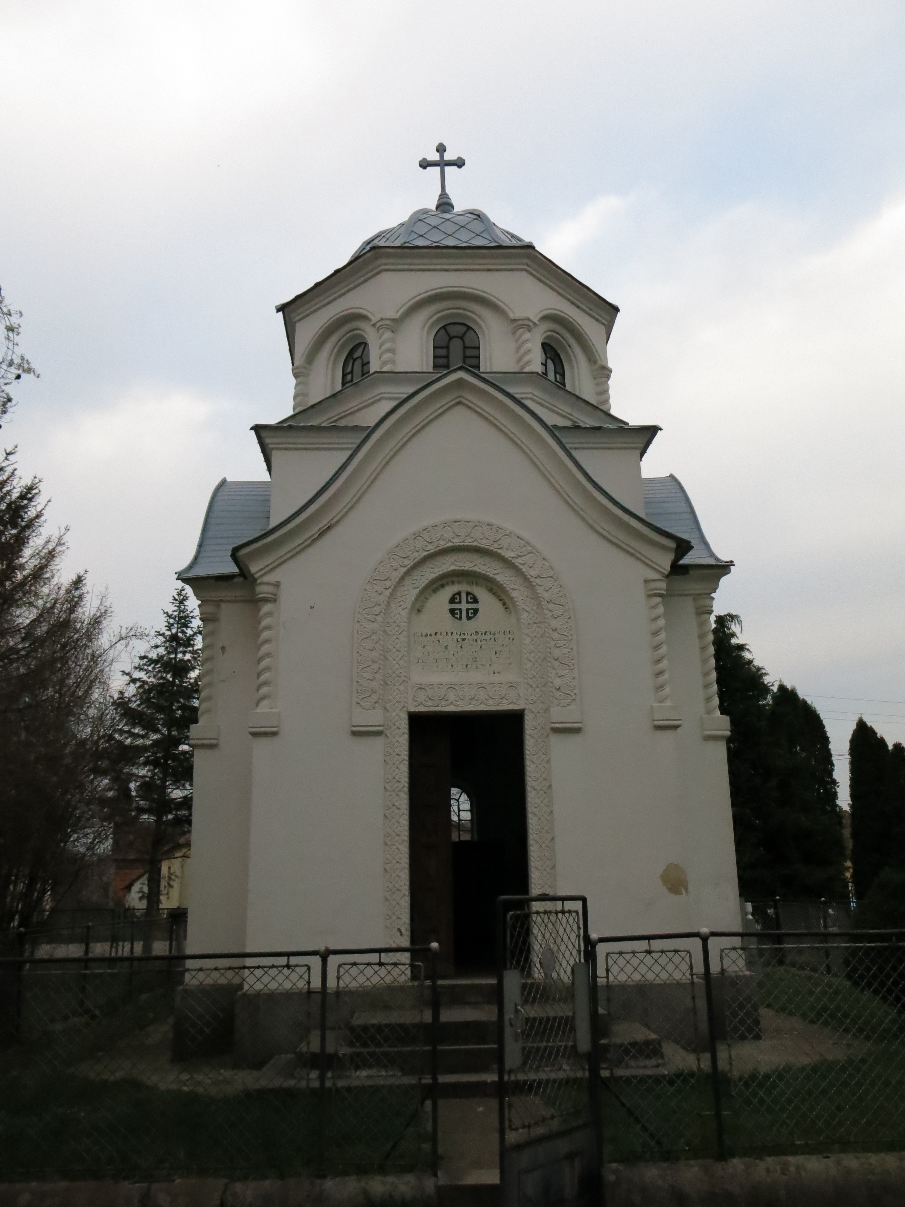 Prnjavor, Chapel with ossuary